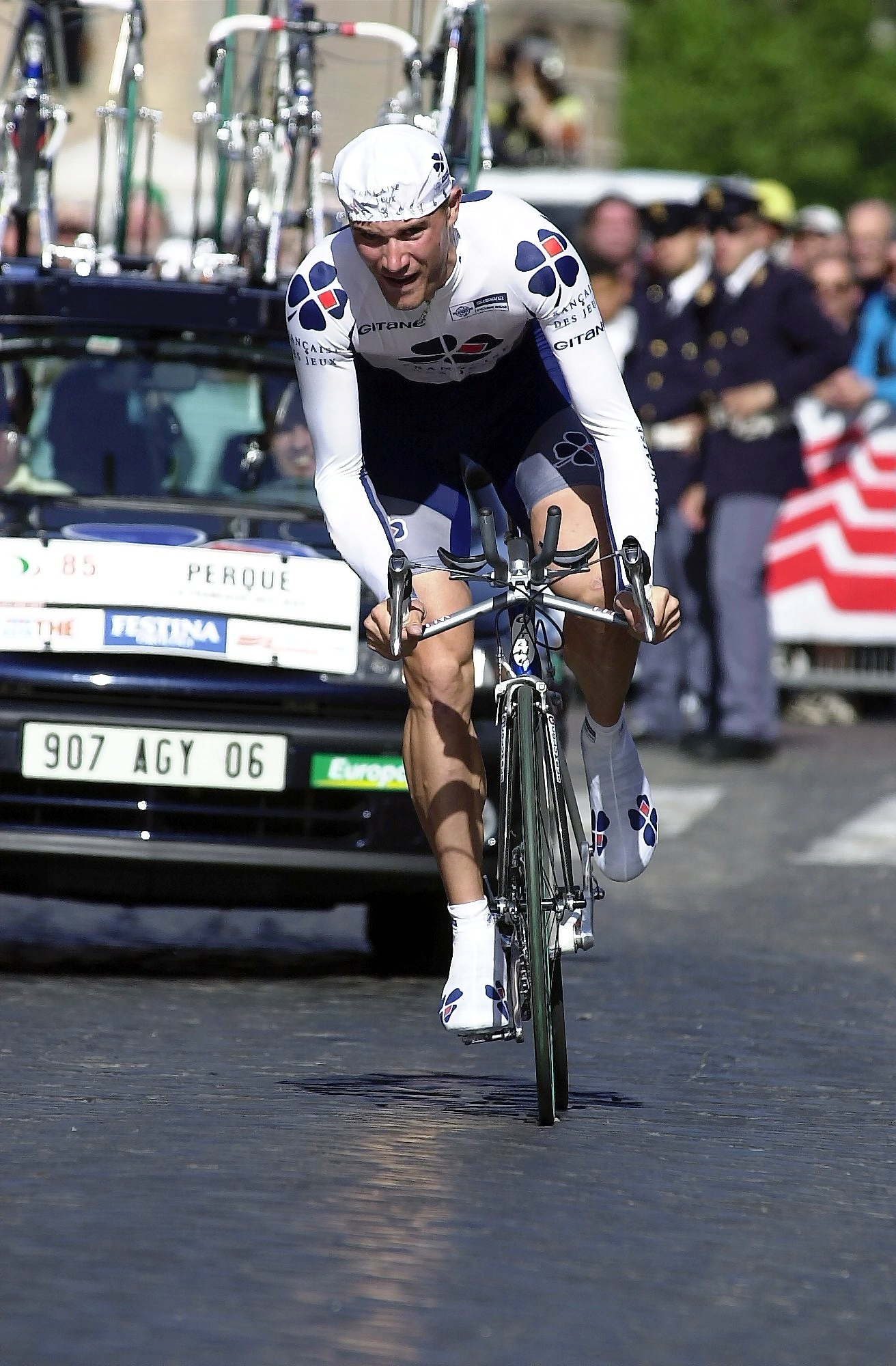 Franck Perque prologue Giro 2000 Roma